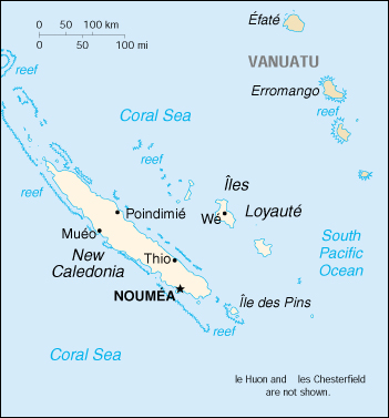 New Caledonia